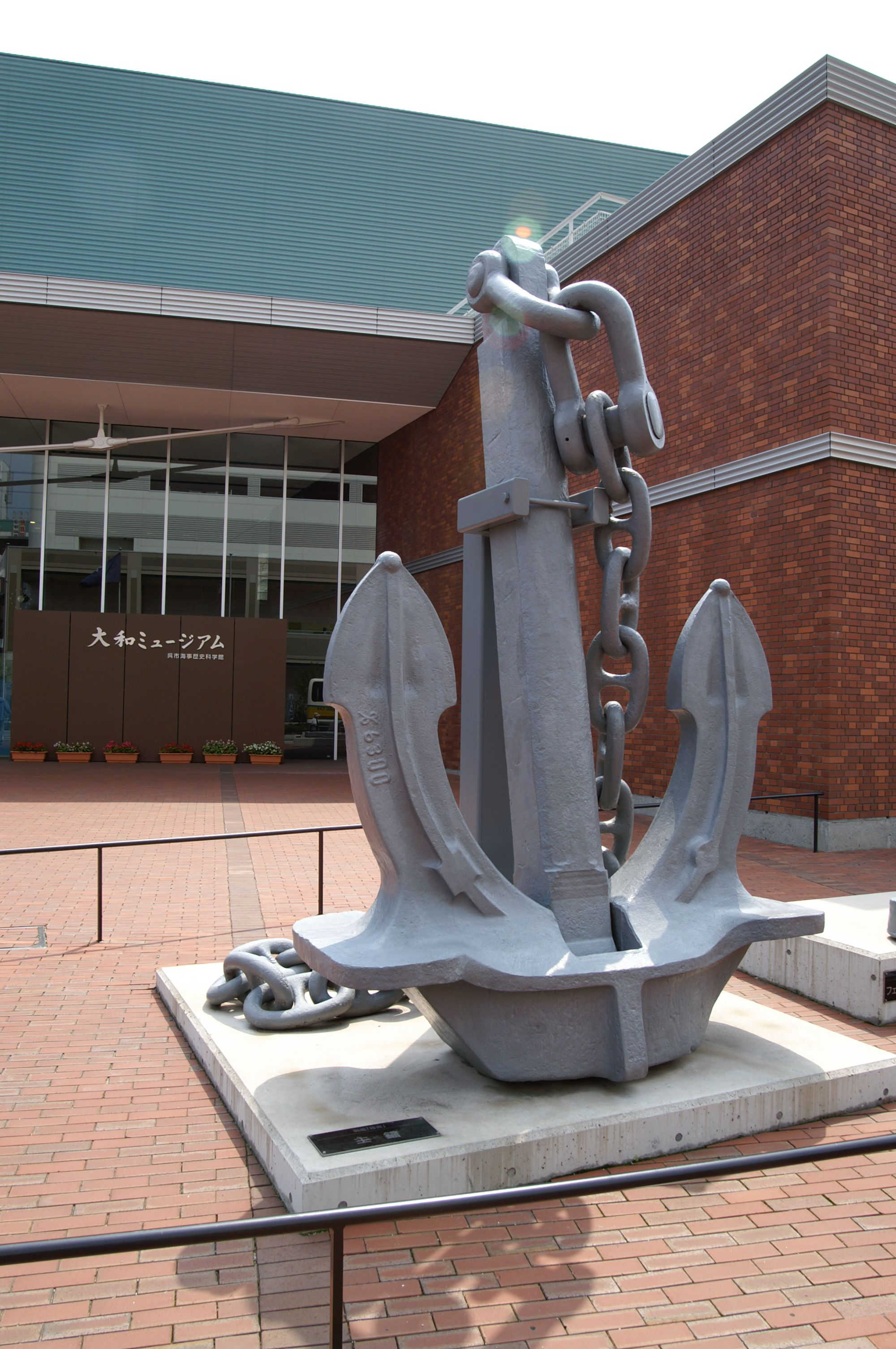 Photograph of anchor from Japanese battleship Mutsu, at the Yamato Museum, Kure, Hiroshima, Japan.